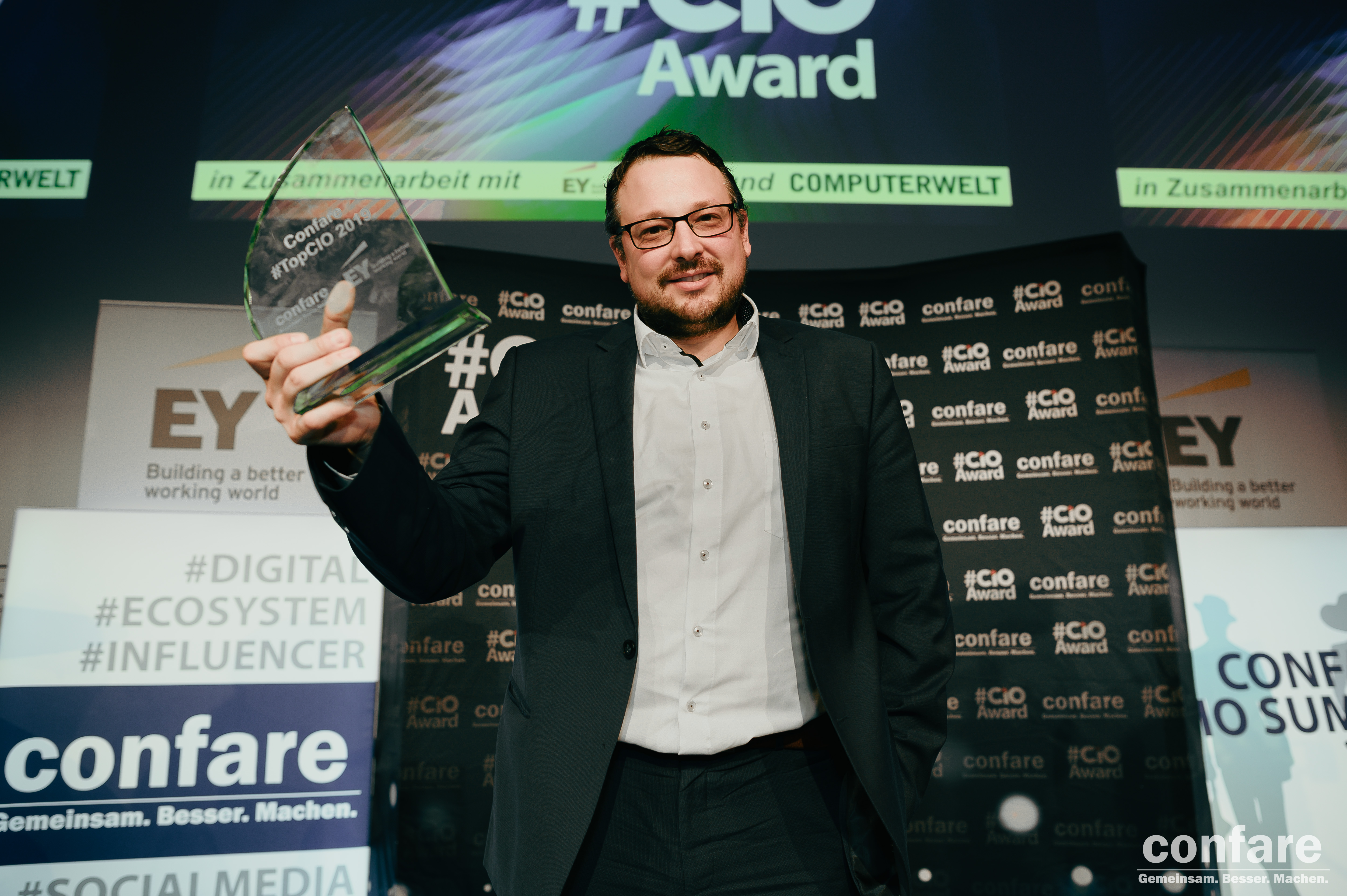 CIO Award